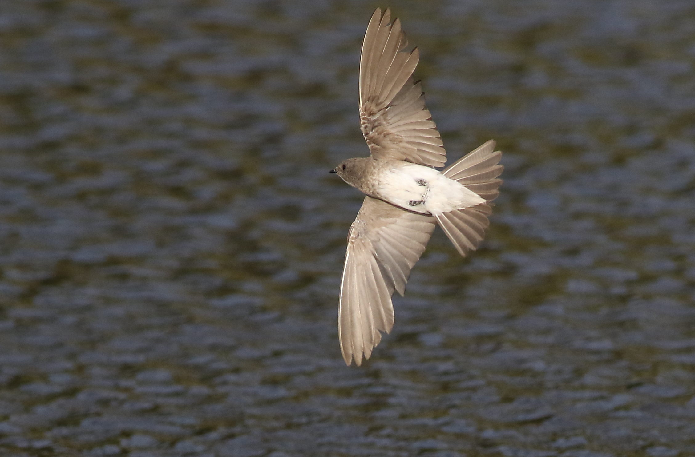 Brown-throated martin, Riparia paludicola, at Marievale Nature Reserve, Gauteng, South Africa.